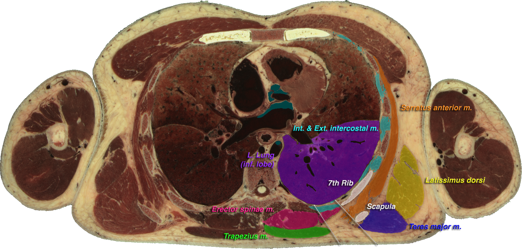 Cross section #1428 of the Visible Human Male. The structures forming the borders and contents of the triangle of auscultation are highlighted. The unmarked lines show the borders of the triangle from superficial to deep through the muscular wall of the back.